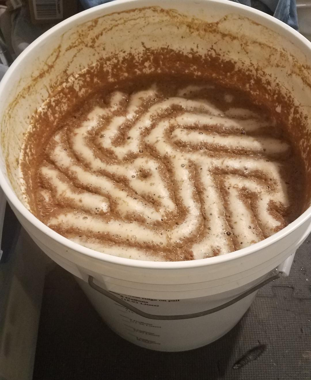 Rayleigh–Bénard convection pattern in honey wine with cinnamon floating on top after 10 days of fermentation.